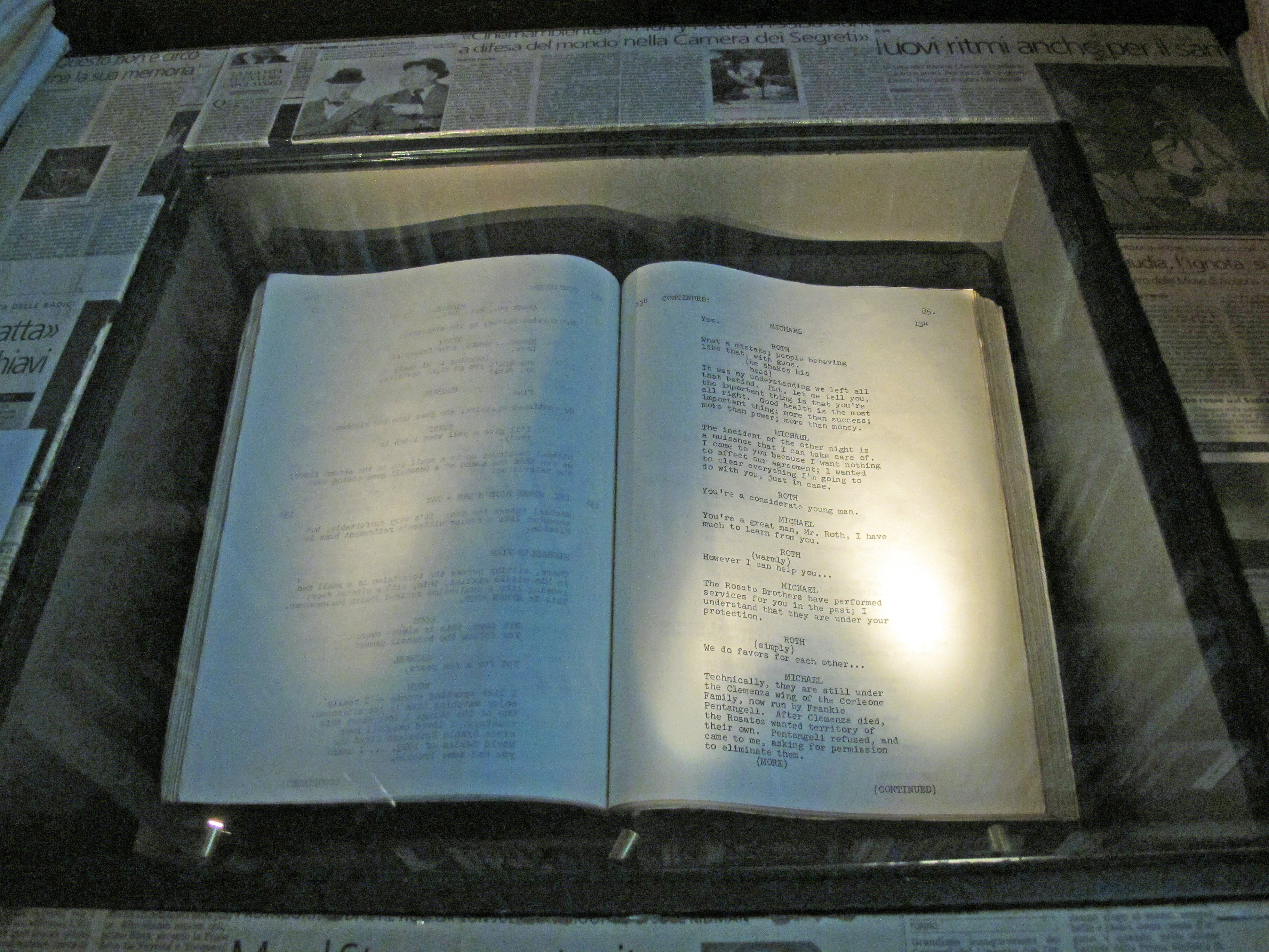 The original screenplay of The Godfather Part II in the National Museum of the Cinema in Turin, Italy.